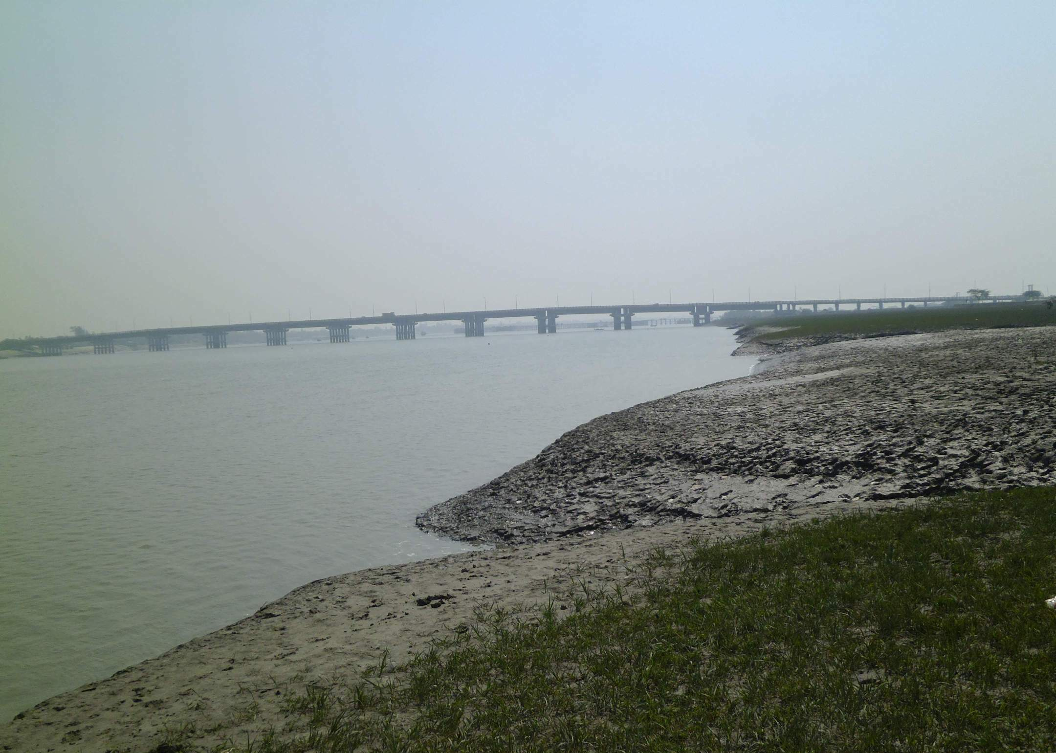 Matla River (Canning) during low tide in winter.